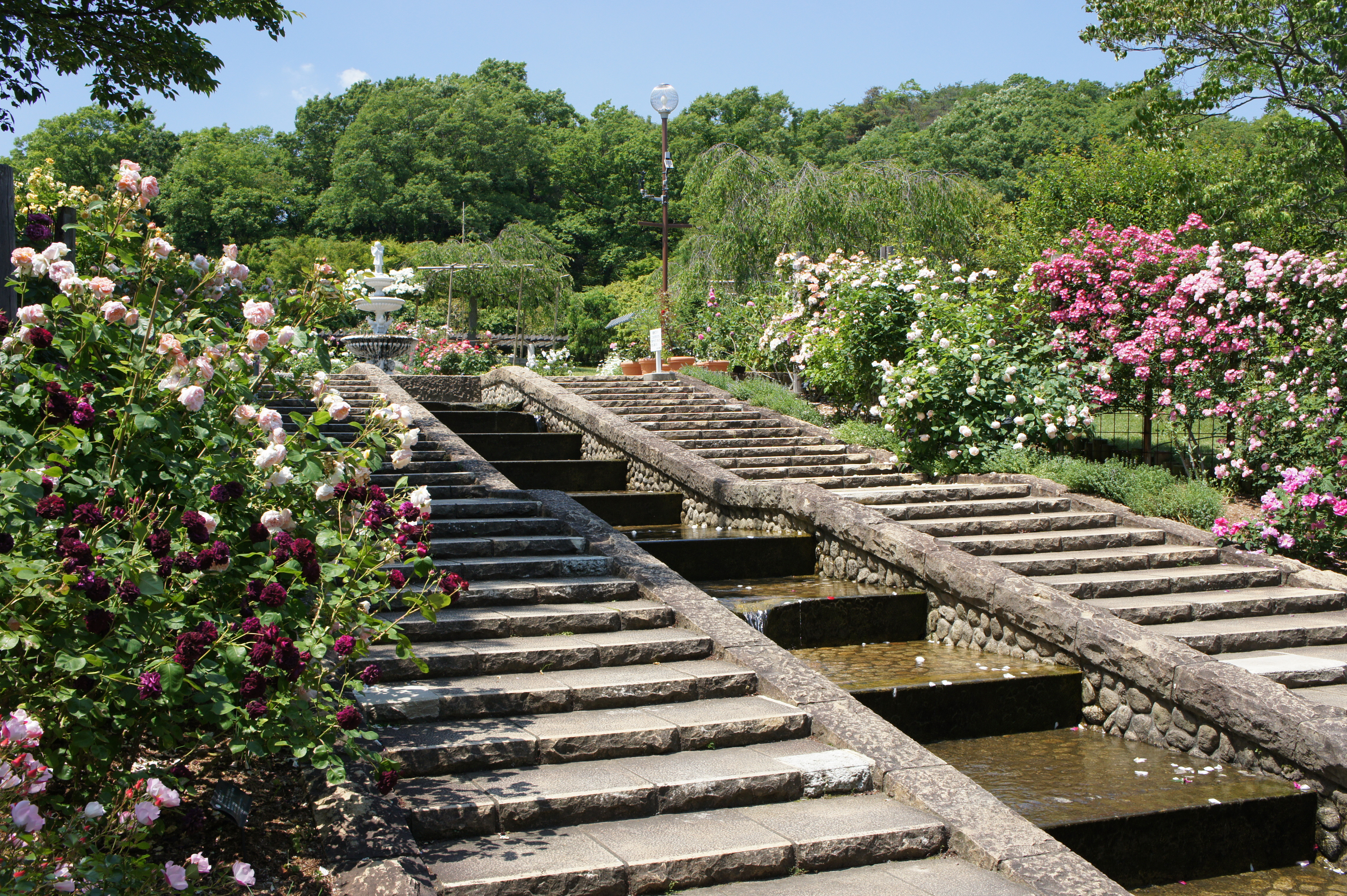 Kitayama Botanical Garden in Nishinomiya, Hyogo prefecture, Japan